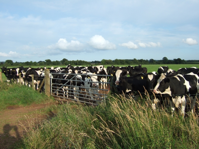 Herd of cows near Rockbeare The field is good level grazing alongside a small stream